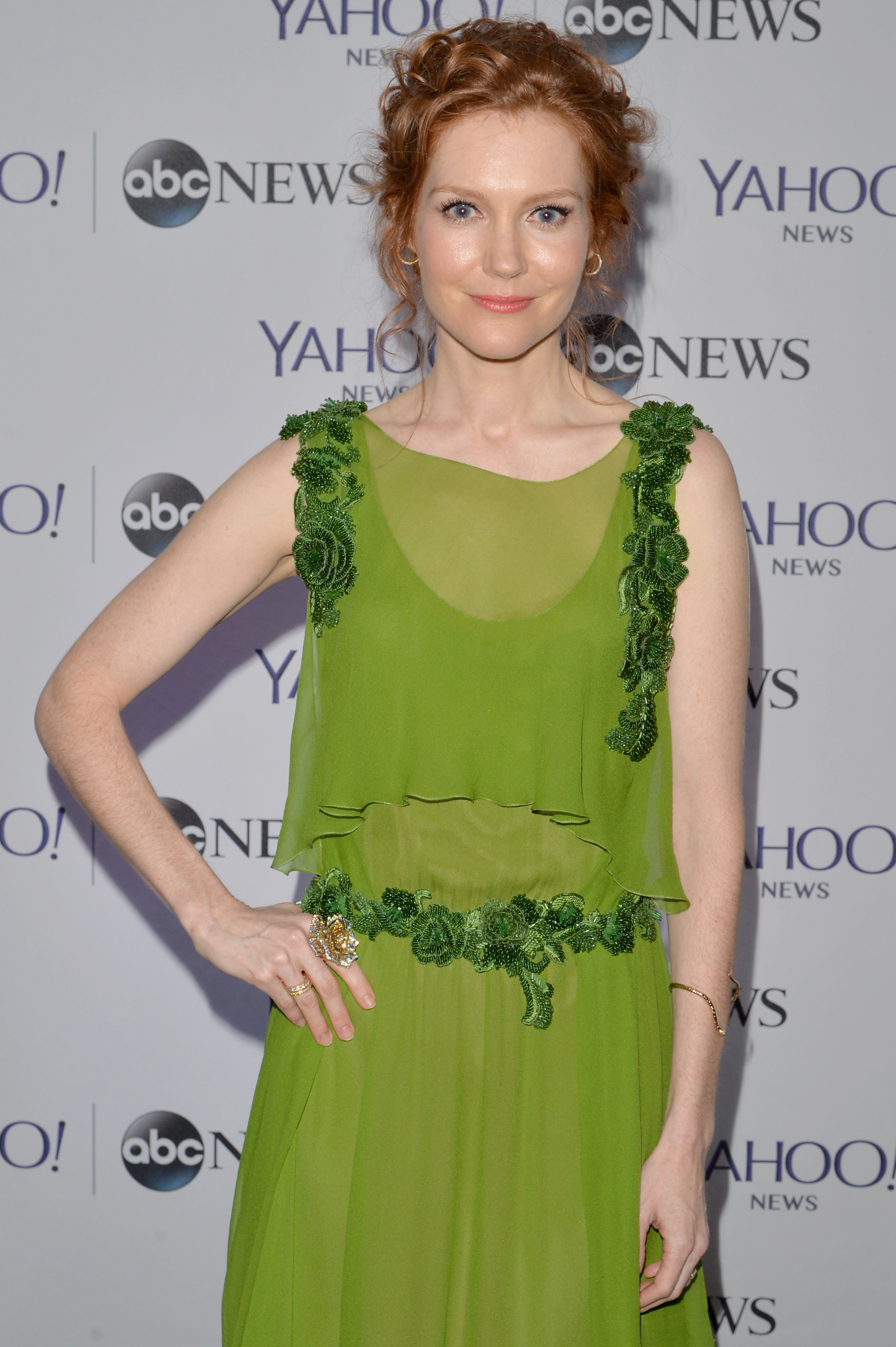 WASHINGTON, DC - MAY 03: Actress Darby Stanchfield attends the Yahoo News/ABCNews Pre-White House Correspondents' dinner reception pre-party at Washington Hilton on May 3, 2014 in Washington, DC. (Photo by Andrew H. Walker/Getty Images for Yahoo News)